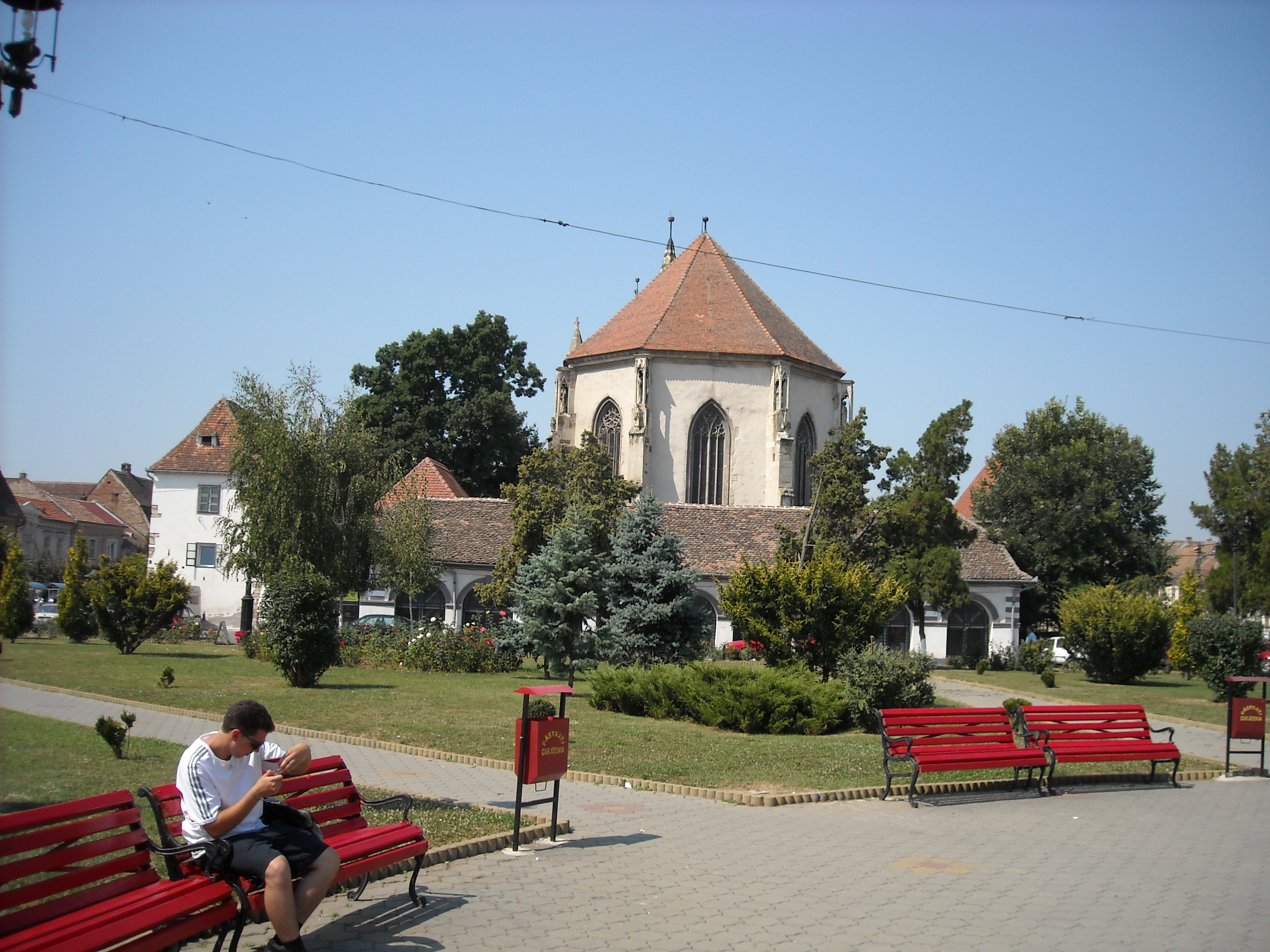 Evangelical Church in Sebeş (Mühlbach)